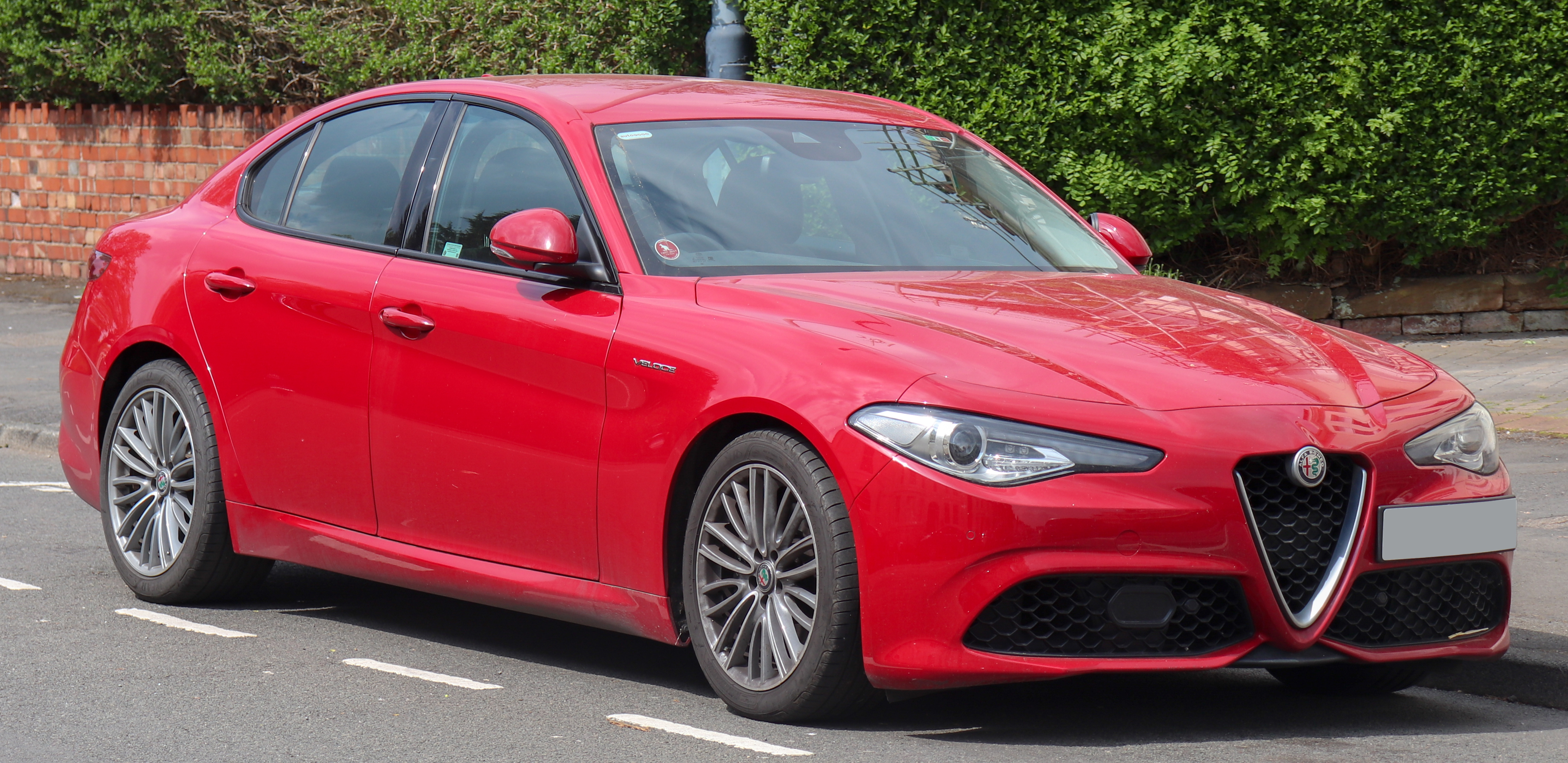 2017 Alfa Romeo Giulia Veloce TB Automatic 2.0 Front Taken in Leamington Spa